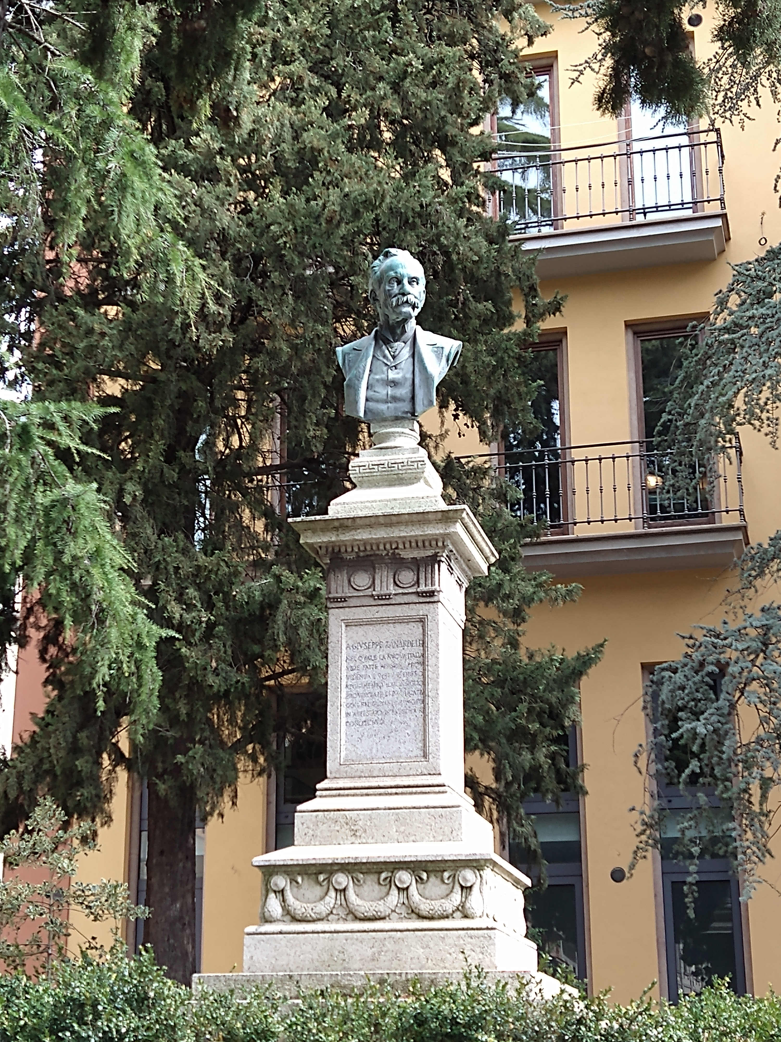 Bust of Giuseppe Zanardelli, Potenza, Italy